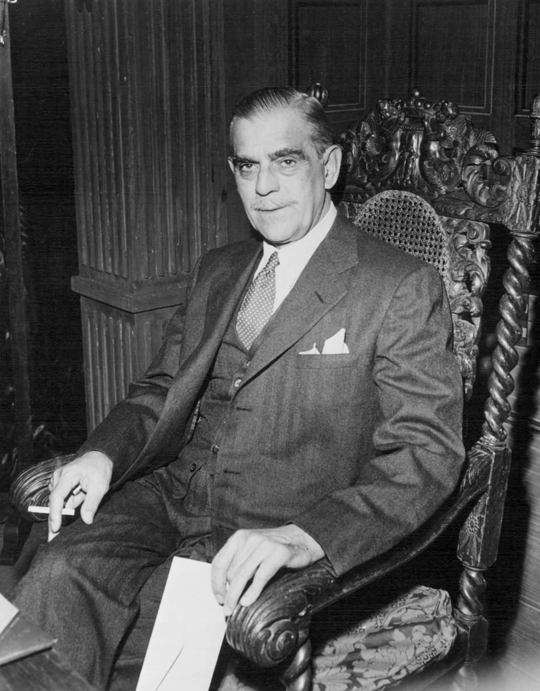 Photo of Boris Karloff from the episode The Deadly Game of the television program Suspicion. Karloff plays a retired judge who takes in a traveler stranded by a snow storm. He and his friends convince the stranger to participate in a mock trial they hold.